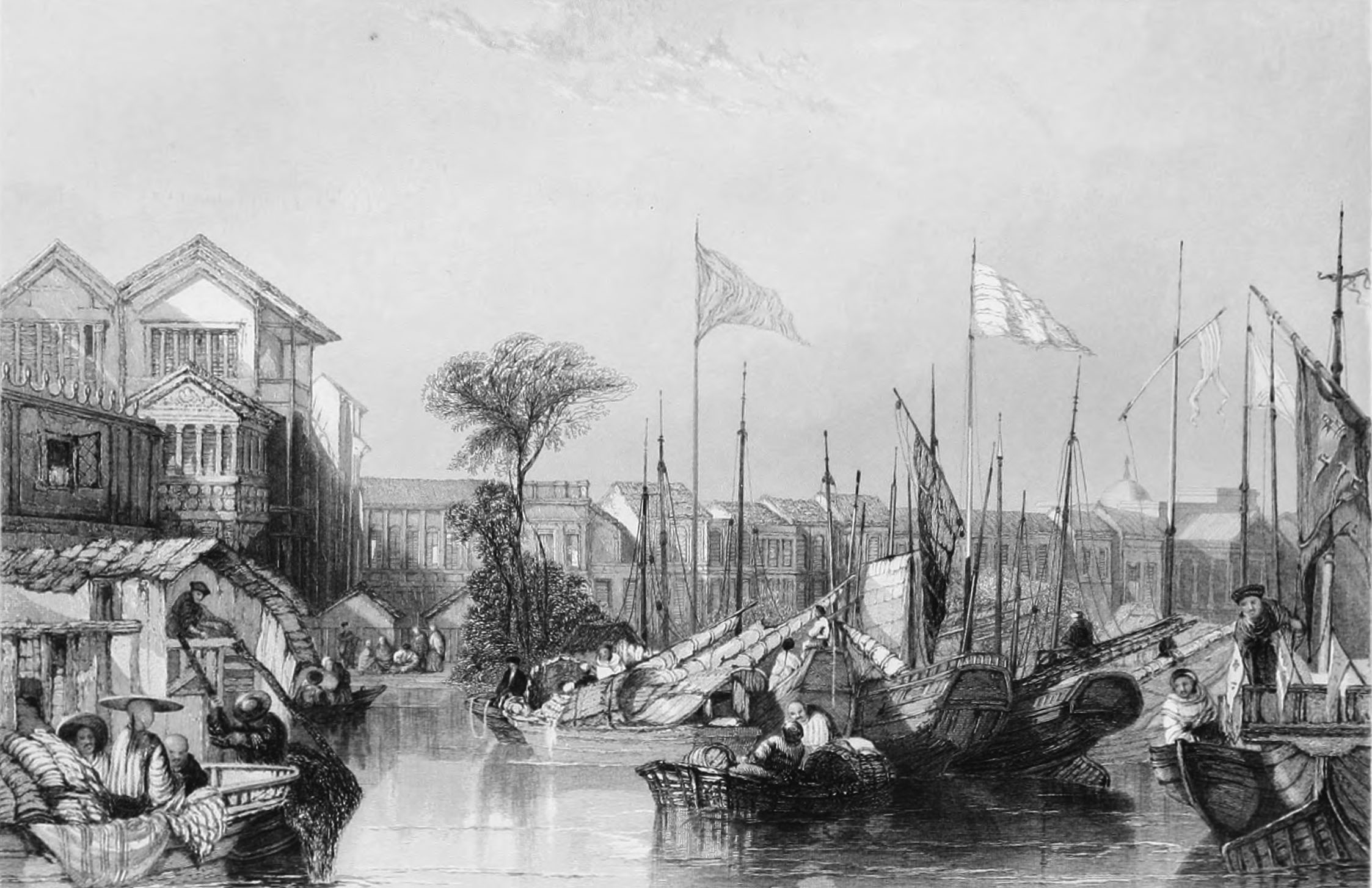 The European Factories in Canton.